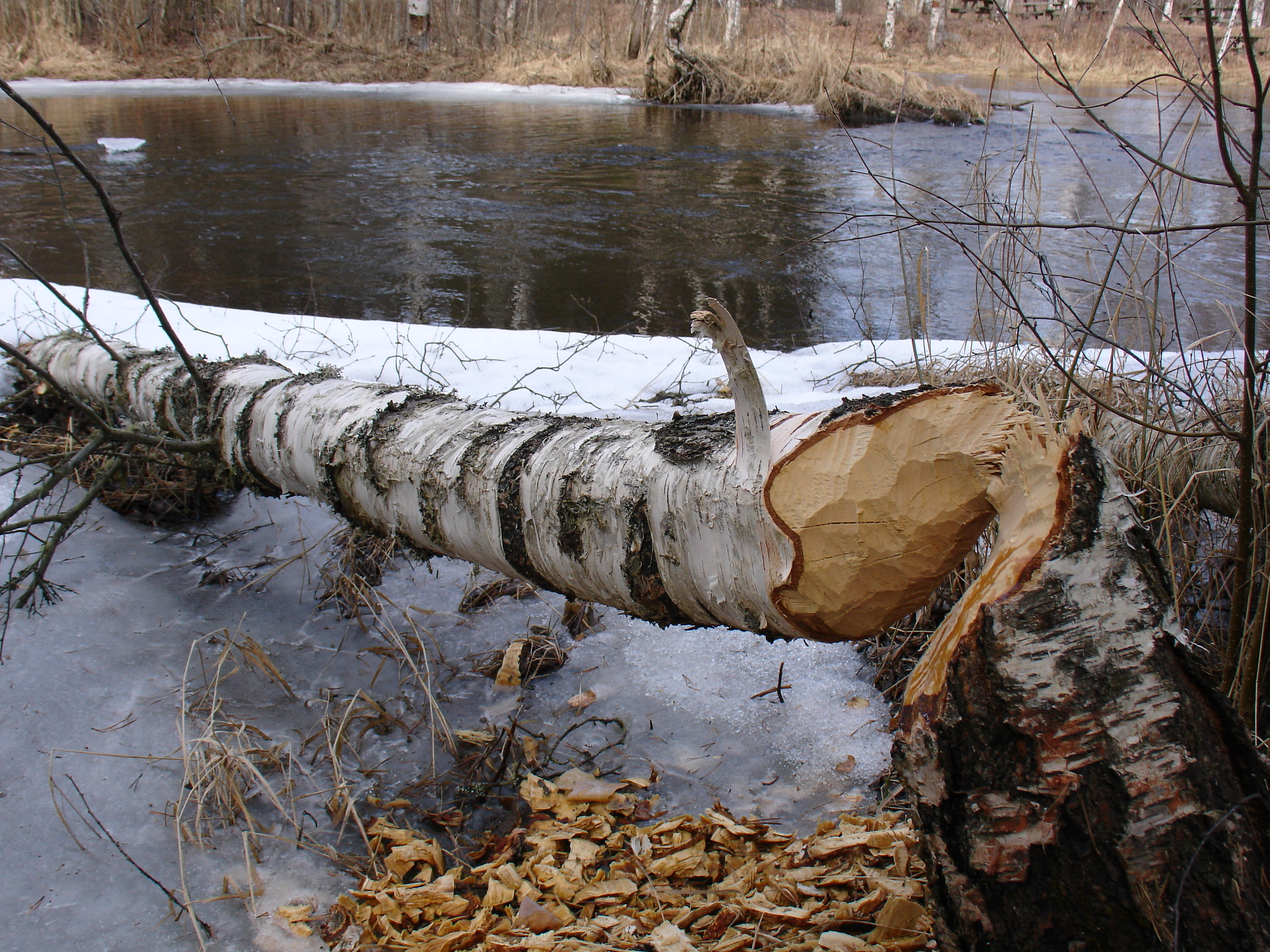 This tree was destroying by beaver. Location Norway. The tree was 20–25 cm thick.